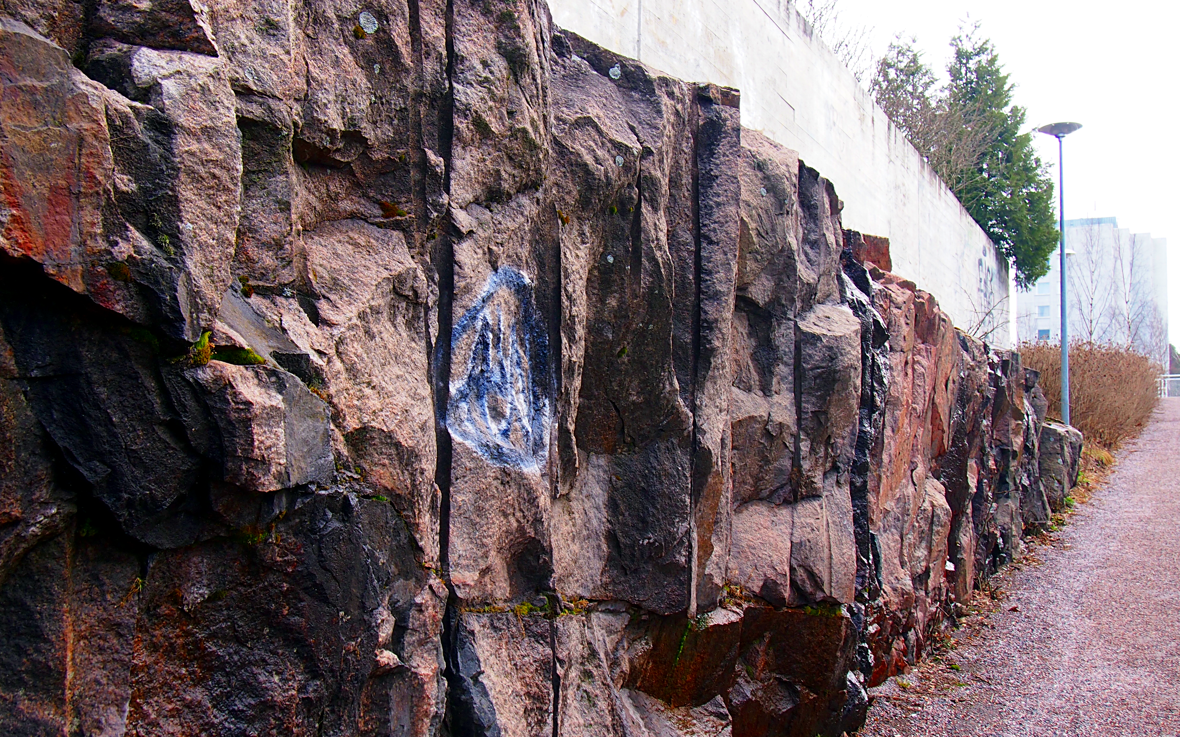 The rocks of Soukka, Espoo, Finland.